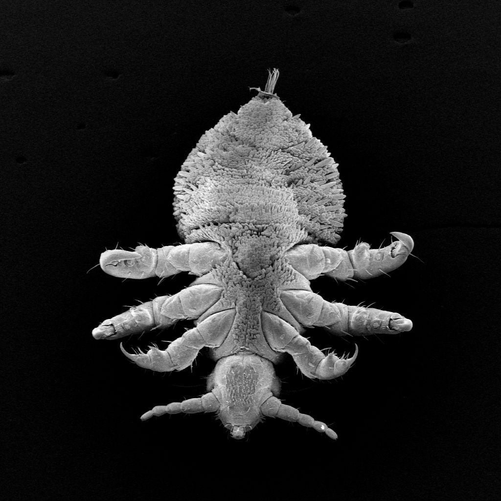 Antarctophthirus trichechi, Specimens from the collection of V.Smith. LouseBase accession number: GLA.M12 Date taken:04 Sep 2002 Date entered:07 Sep 2003 Magnification:24x Width:1024 Height:1024 sid id: 1151